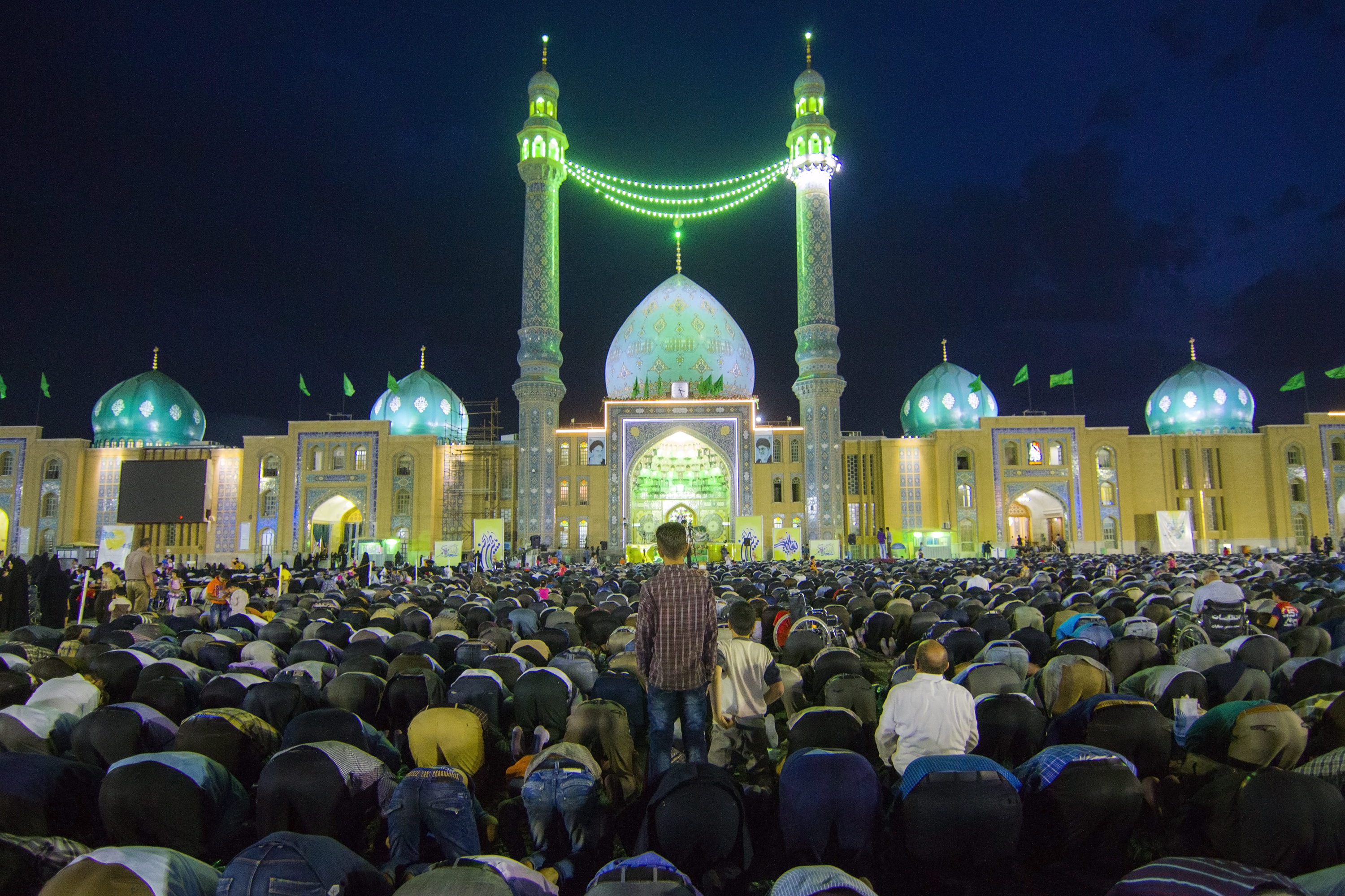 The Jamkaran Mosque is one of the primary significant mosques in the city of Qom, Iran.